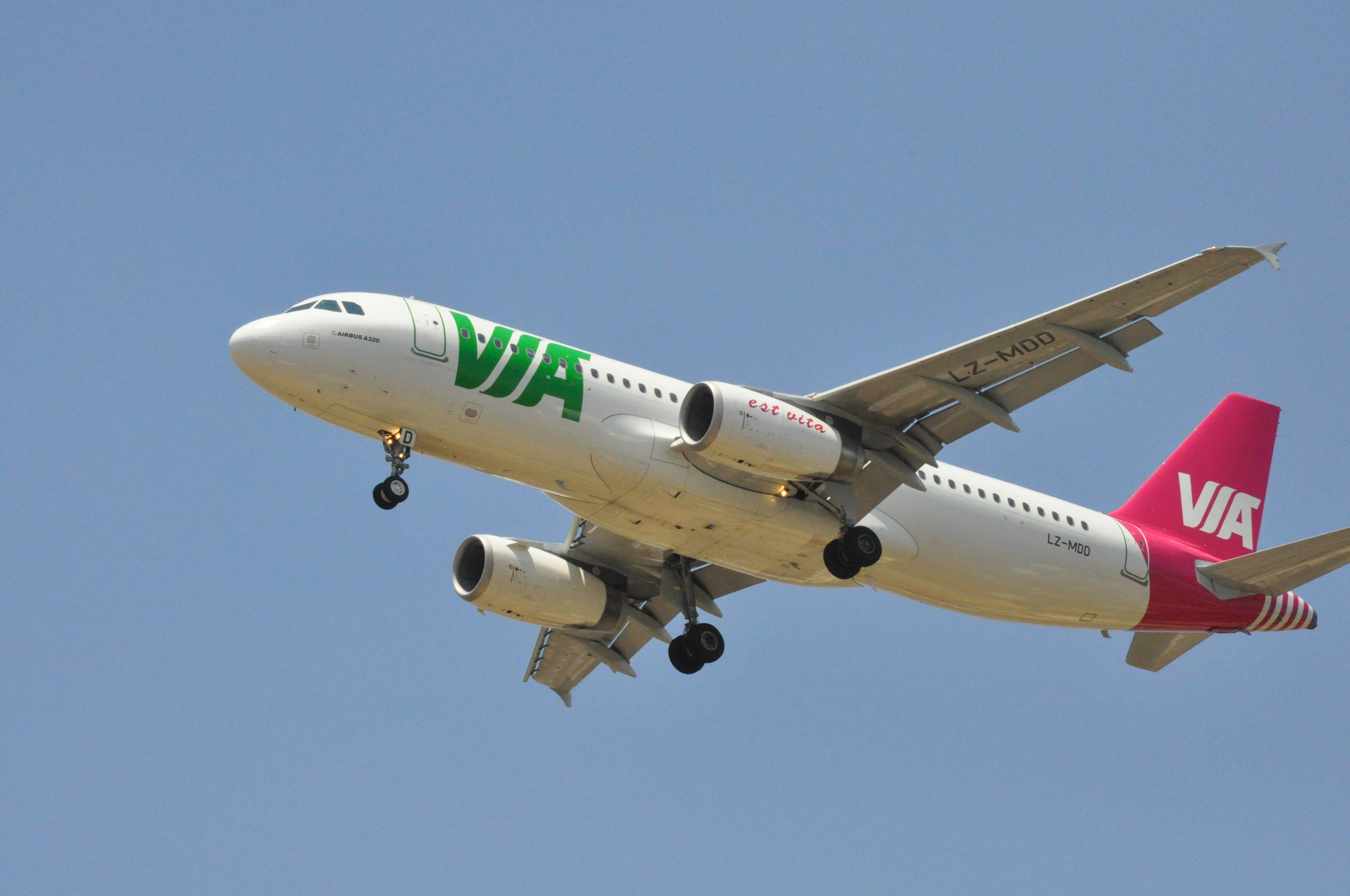 Air VIA A320-232 landing on runway 26 at Ben Gurion Airport, Tel Aviv.